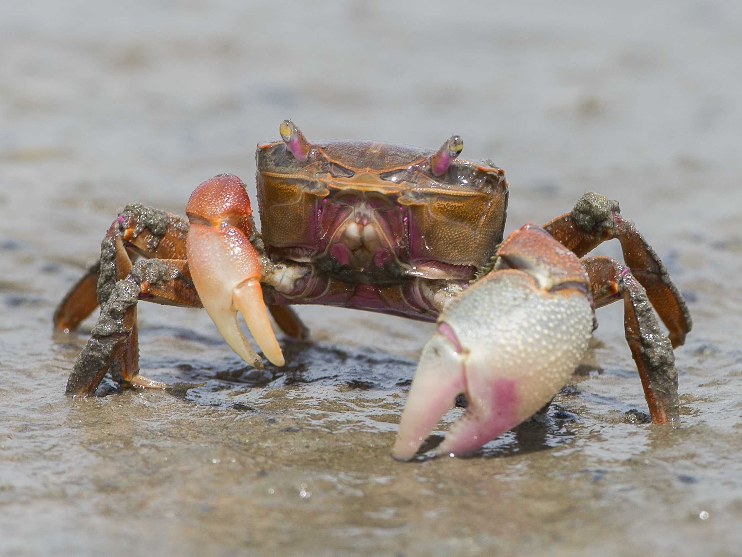 Burrowing crab (Neohelice granulata) at Parque Nacional da Lagoa do Peixe, RS, Brazil